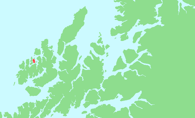 Locator map of Dyrøya, Nordland, Norway